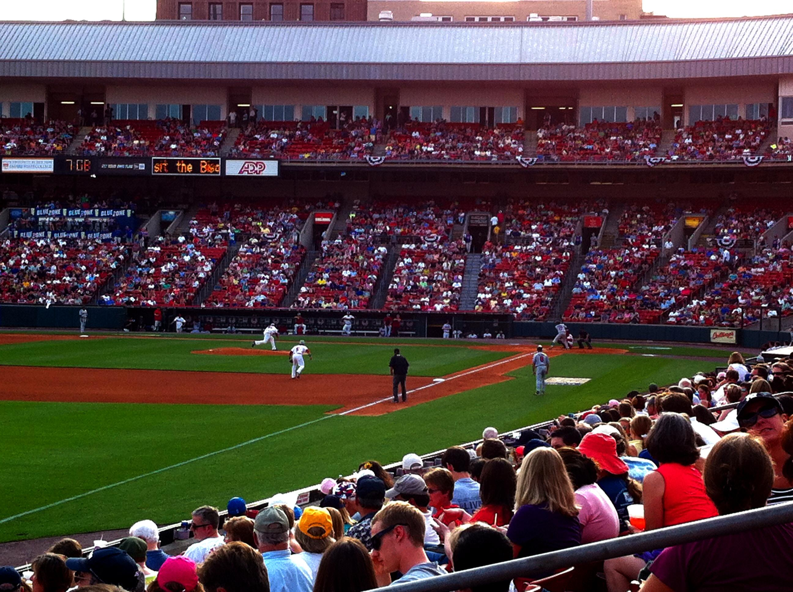 The Buffalo Bisons are the AAA farm team of the Toronto Blue Jays. Their home games are played at Coca-Cola Field in downtown Buffalo.